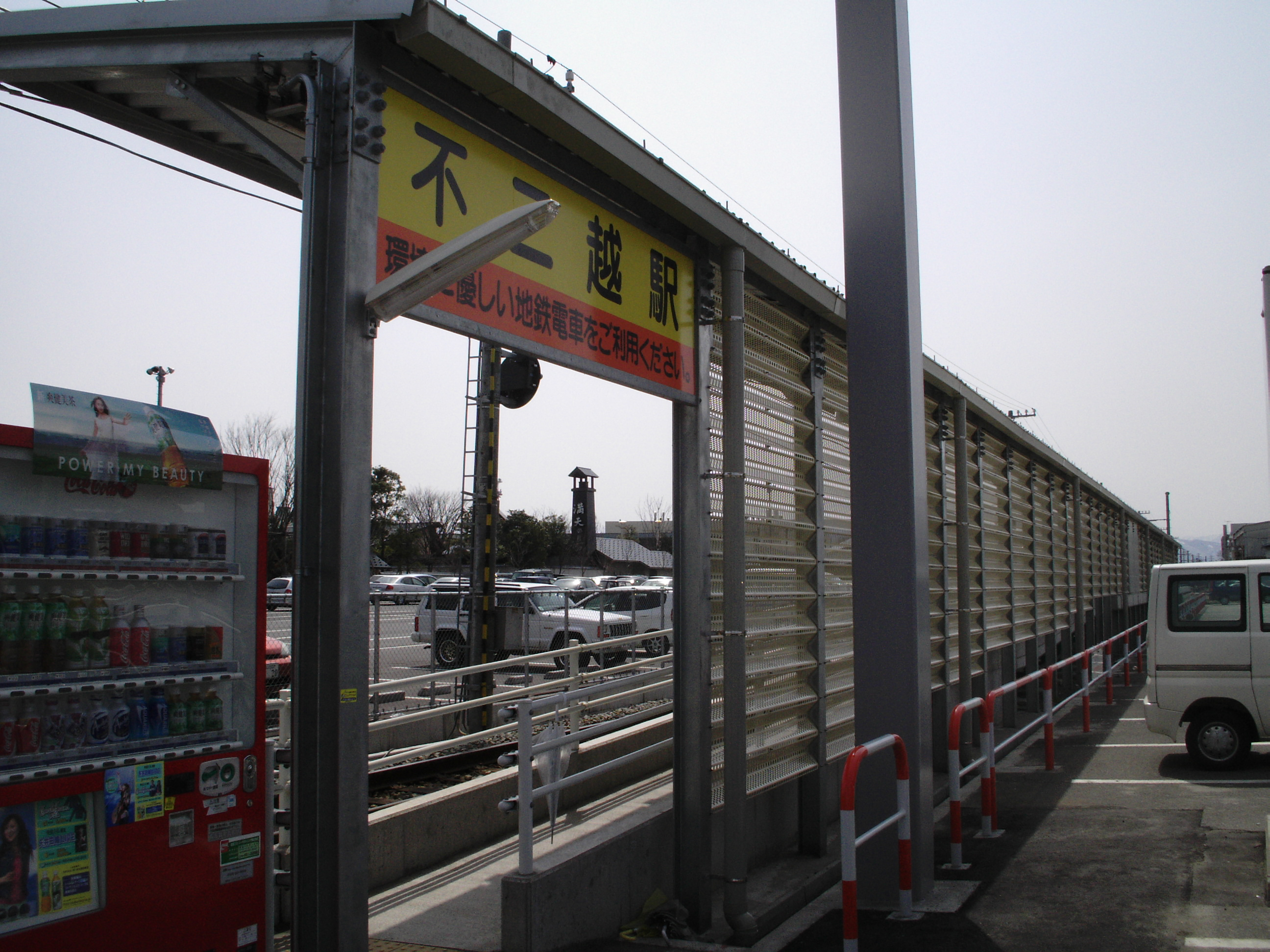 Fujikoshi Station on the Toyama Chiho Railway Fujikoshi Line in the city of Toyama, Toyama Prefecture, Japan